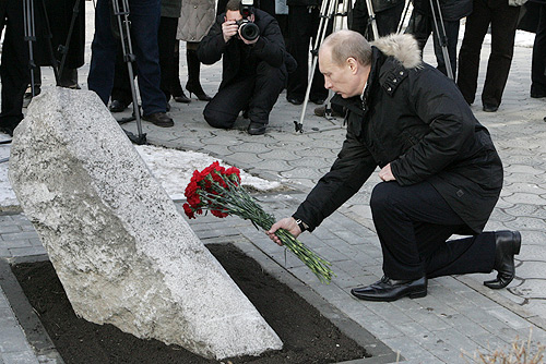 NOVOCHERKASSK, ROSTOV REGION. Laying flowers at the memorial to the victims of the 1962 Novocherkassk tragedy.